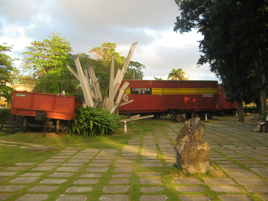 Inside the park of Tren Blindado memorial and museum in Santa Clara, Cuba.